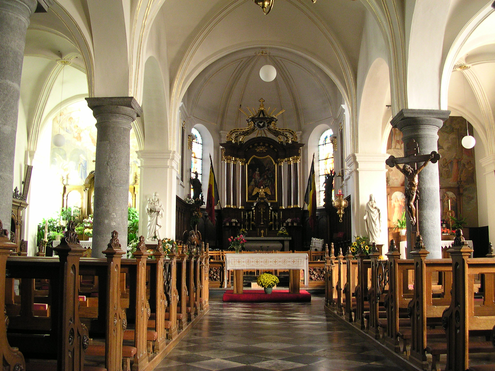 Hombourg church